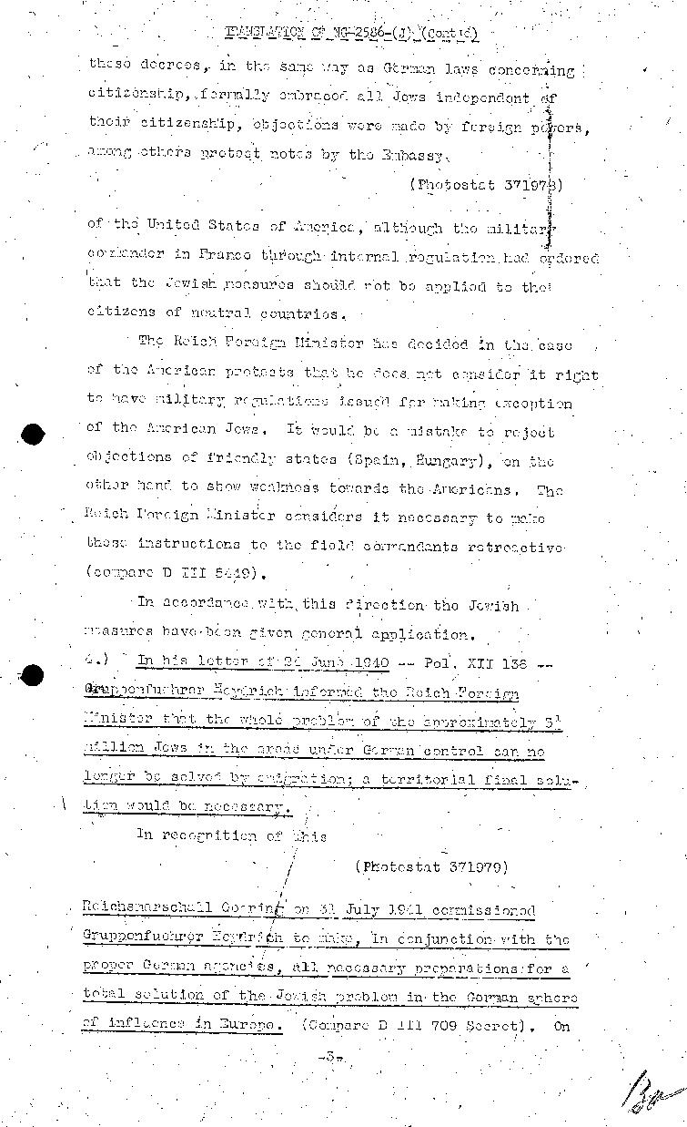 Page 3 of the translation of Document No. NG-2586 (J), "Memorandum, from Martin Luther (advisor of 3rd Reich's Foreign Minister), Under Secretary of State, Berlin, August 21, 1942", Records of the World Jewish Congress, Jacob Rader Marcus Center of the American Jewish Archives